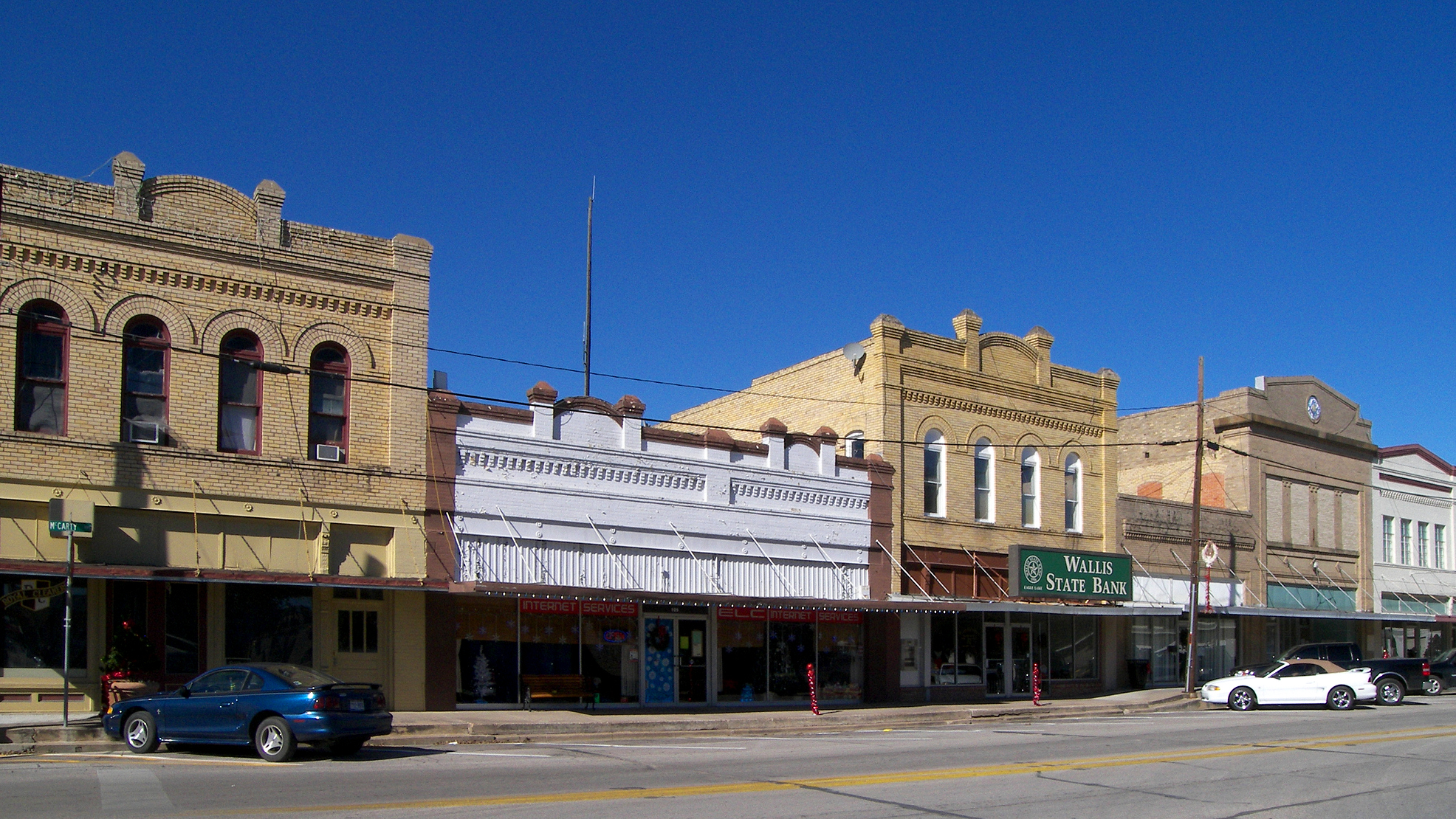 The 100 block of McCarty Ave, part of the Eagle Lake Commercial Historic District located in Eagle Lake, Texas, United States. The district was listed on the National Register of Historic Places on June 5, 2007.